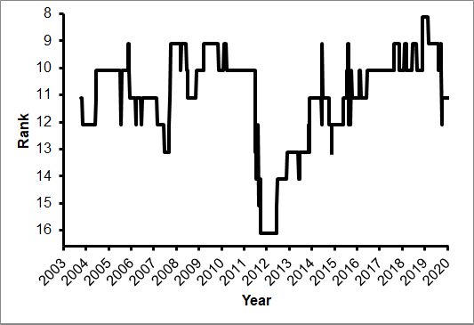 IRB World Rankings from